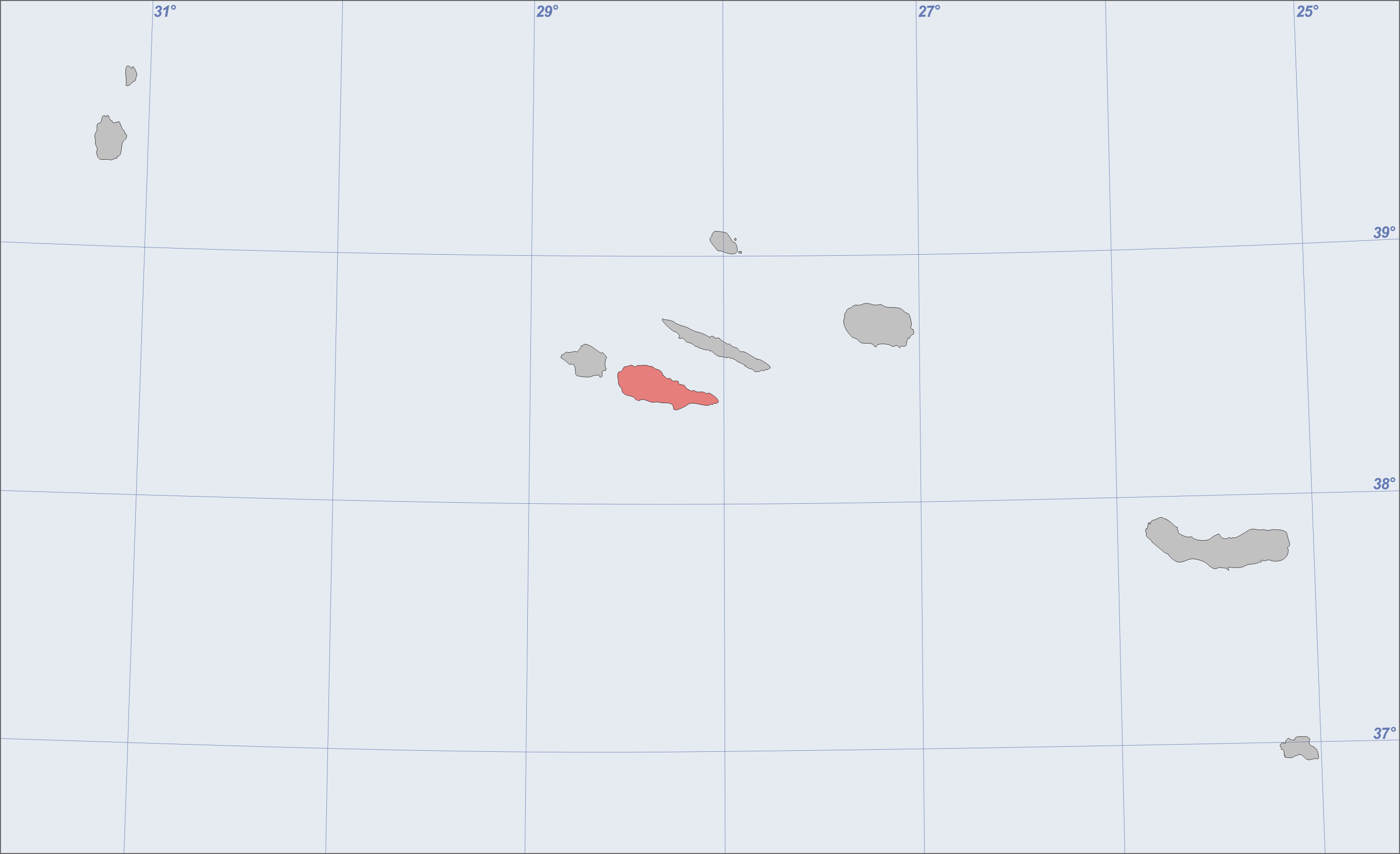 Position of Pico Island, Azores drawn by varp